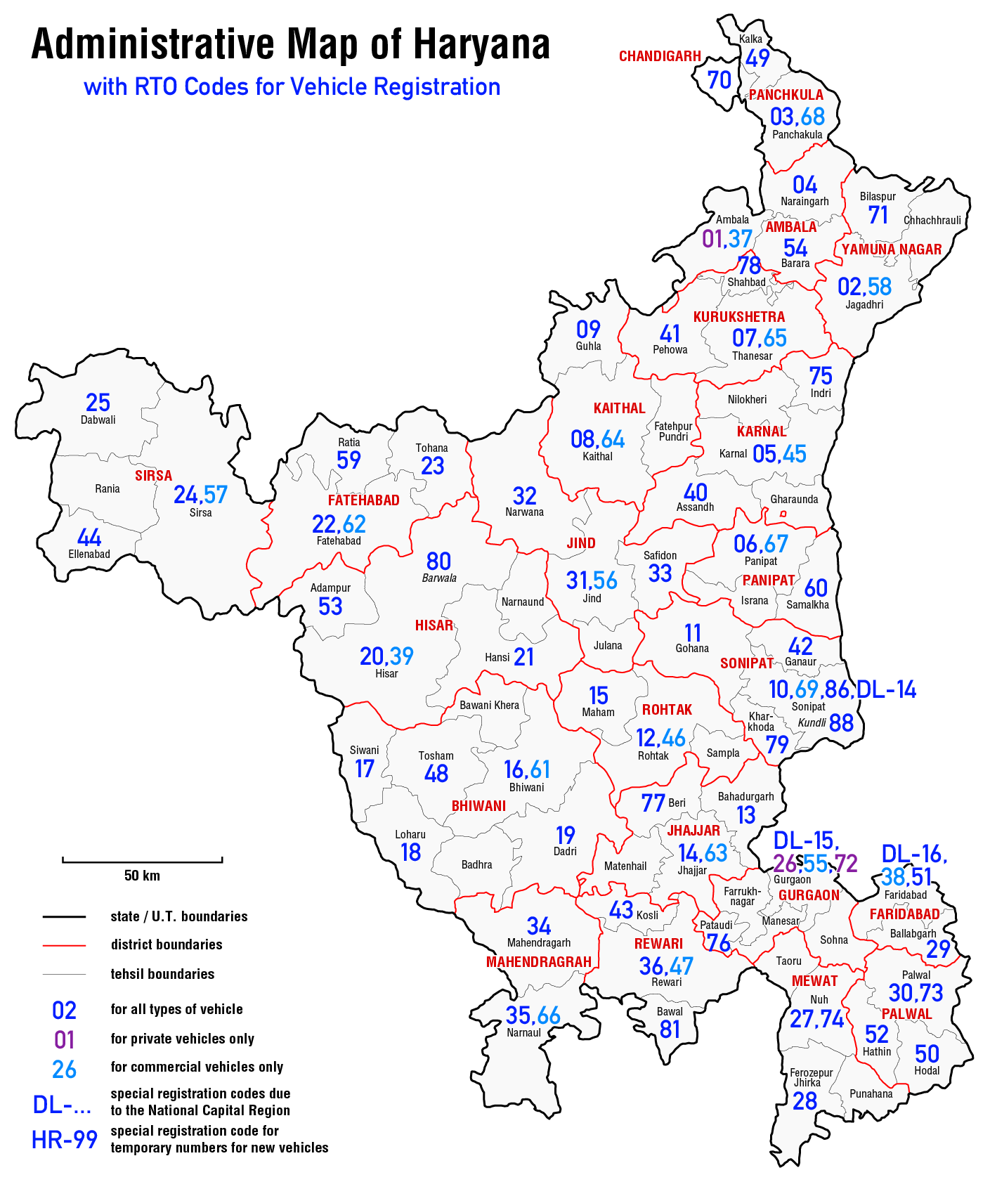 Administrative map of Haryanawith RTO Codes for Vehicle Registration